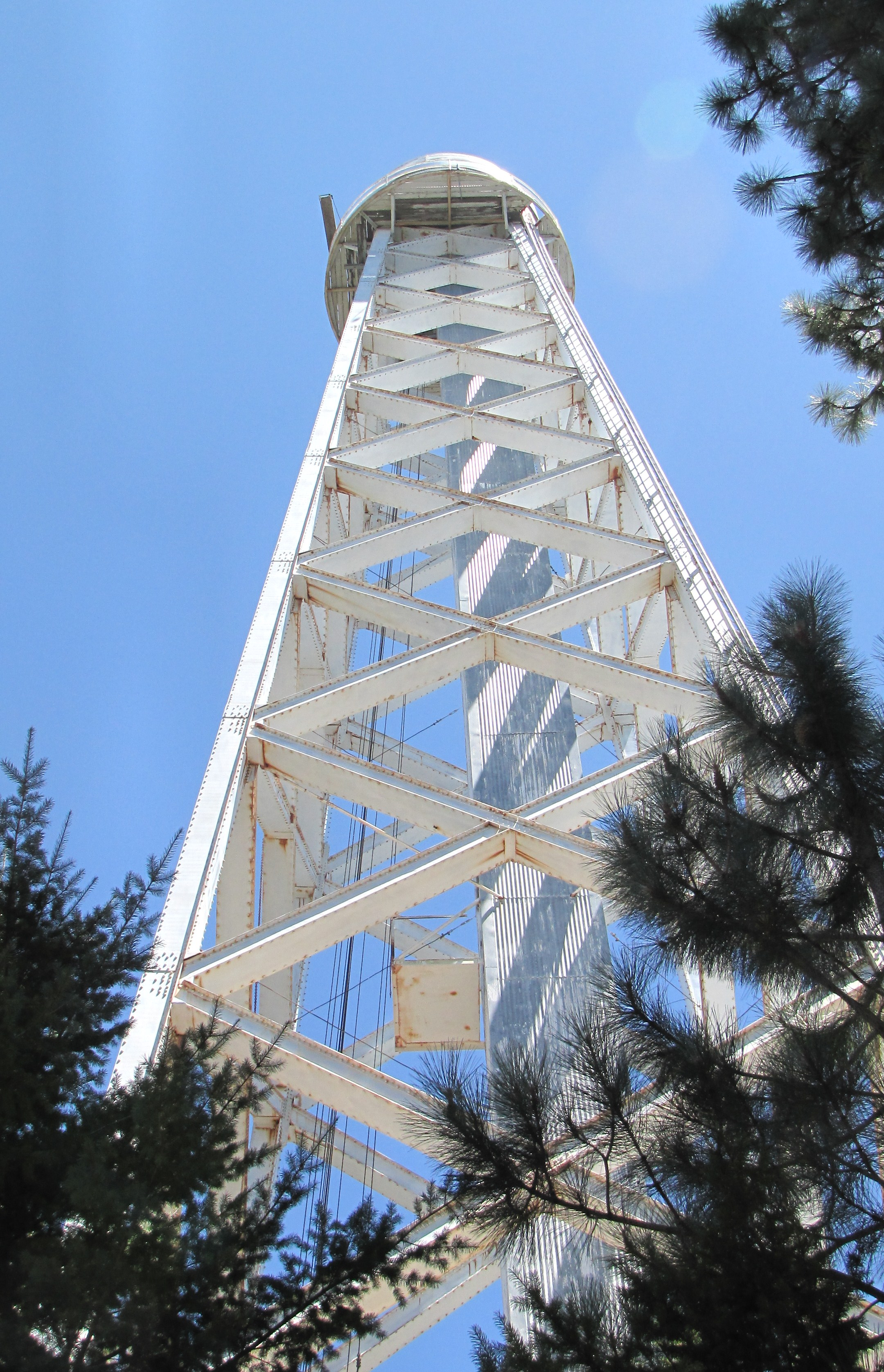 The photograph was taken from near the base of the tower. The tower is actually about 176 feet high. The 150-Foot part of the name of the structure refers to the fact that the projected image is about 150 feet below the level of the objective lens. Location: Mount Wilson Observatory, California, USA